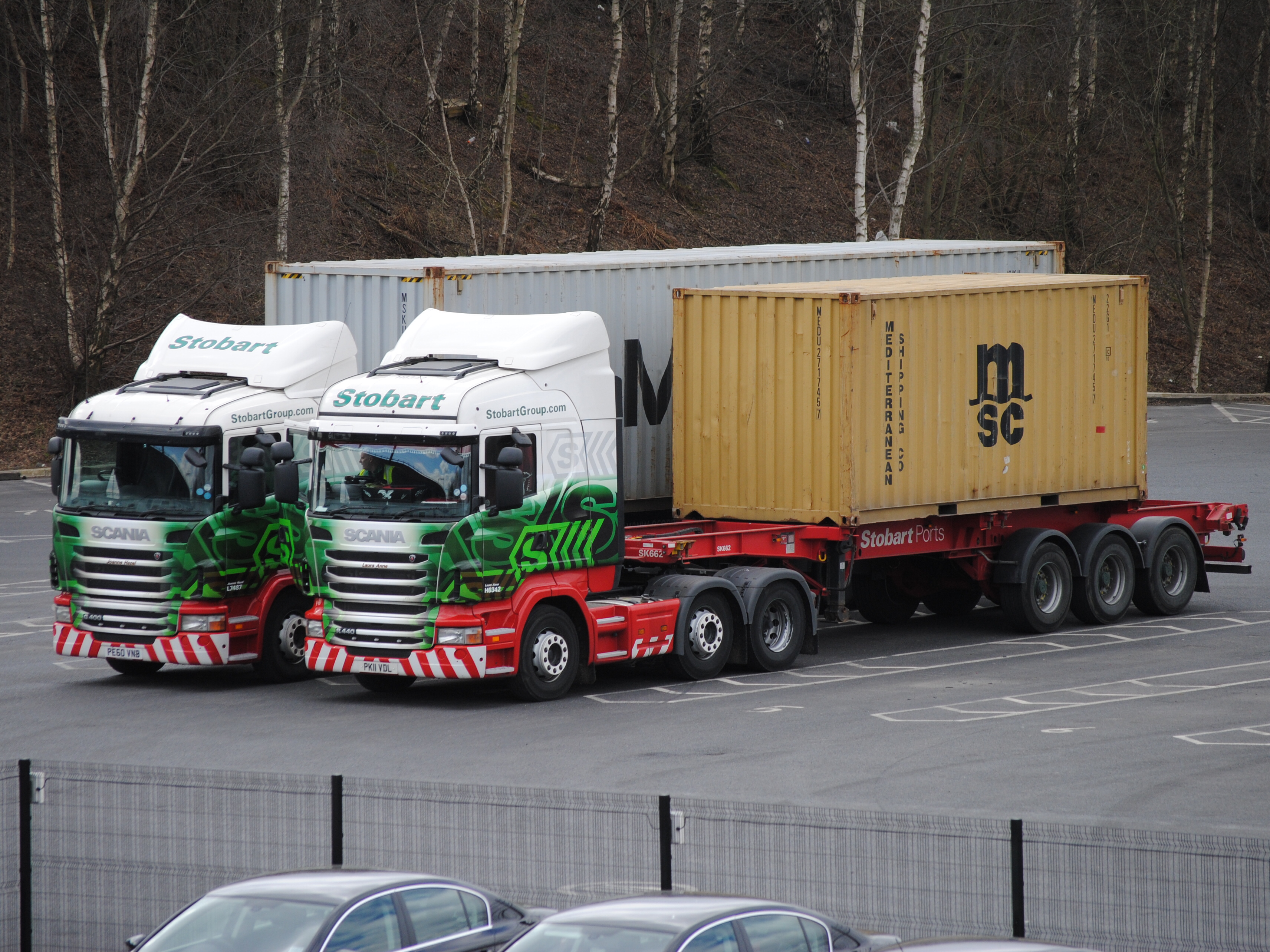 Scania G400 (L7487 Joanne Hazel) and Scania R440 (H6342 Laura Anne). seen here in Widnes